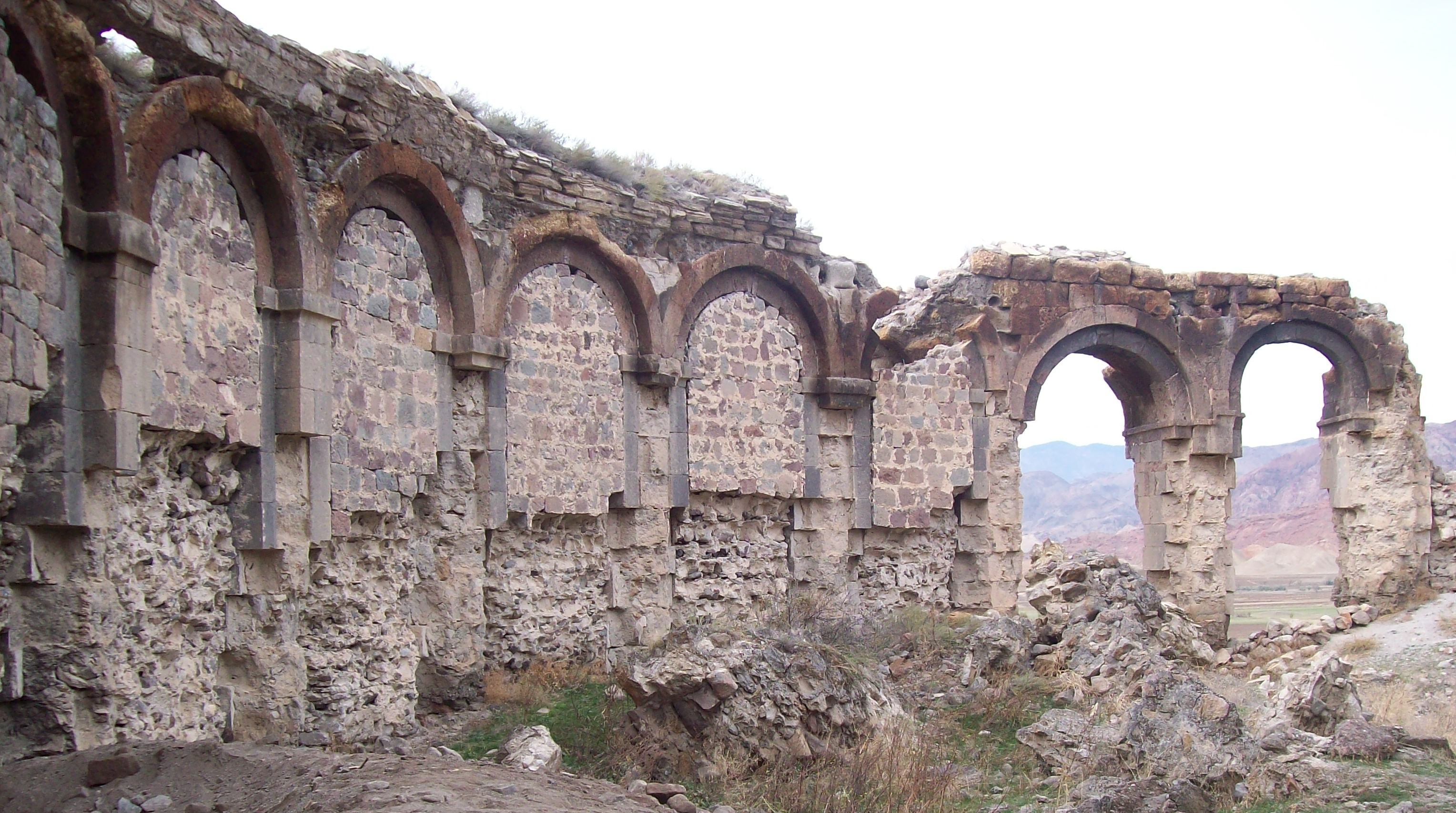 Bana Cathedral (Turkey)